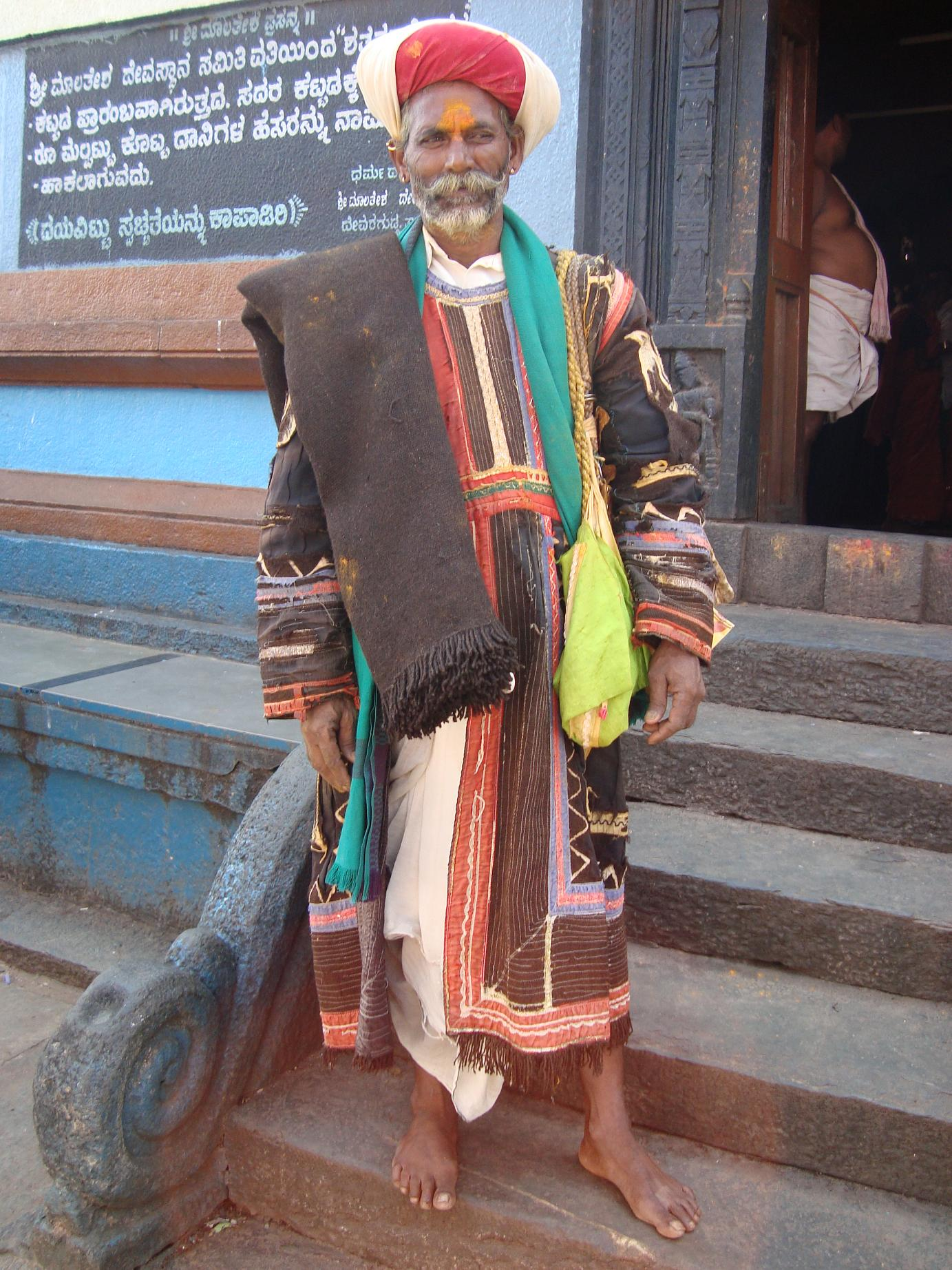 Mylara Lingeshwara Temple at Mylara, Bellary District, North Karnataka, India Source and Author : Manjunath Doddamani, Gajendragad / Hubli, Karnataka(India)